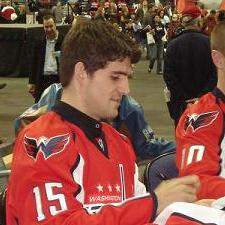 Boyd Gordon at a Meet the Team event